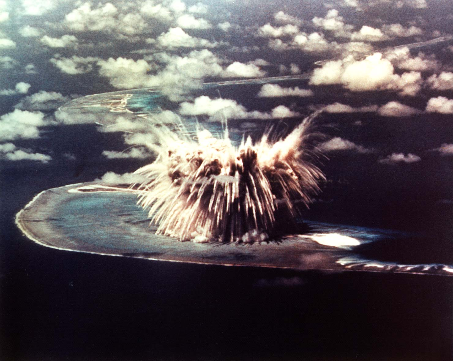 Nuclear weapon test Seminole (yield 13.7 kt) on Enewetak Atoll.